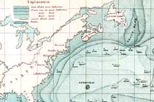 Grand Banks from NOAA Title: First attempt at a bathymetric map by Matthew Fontaine Maury.